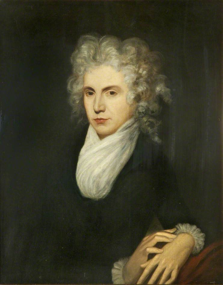 Portrait of Mary Wollstoncraf, made during her lifetime